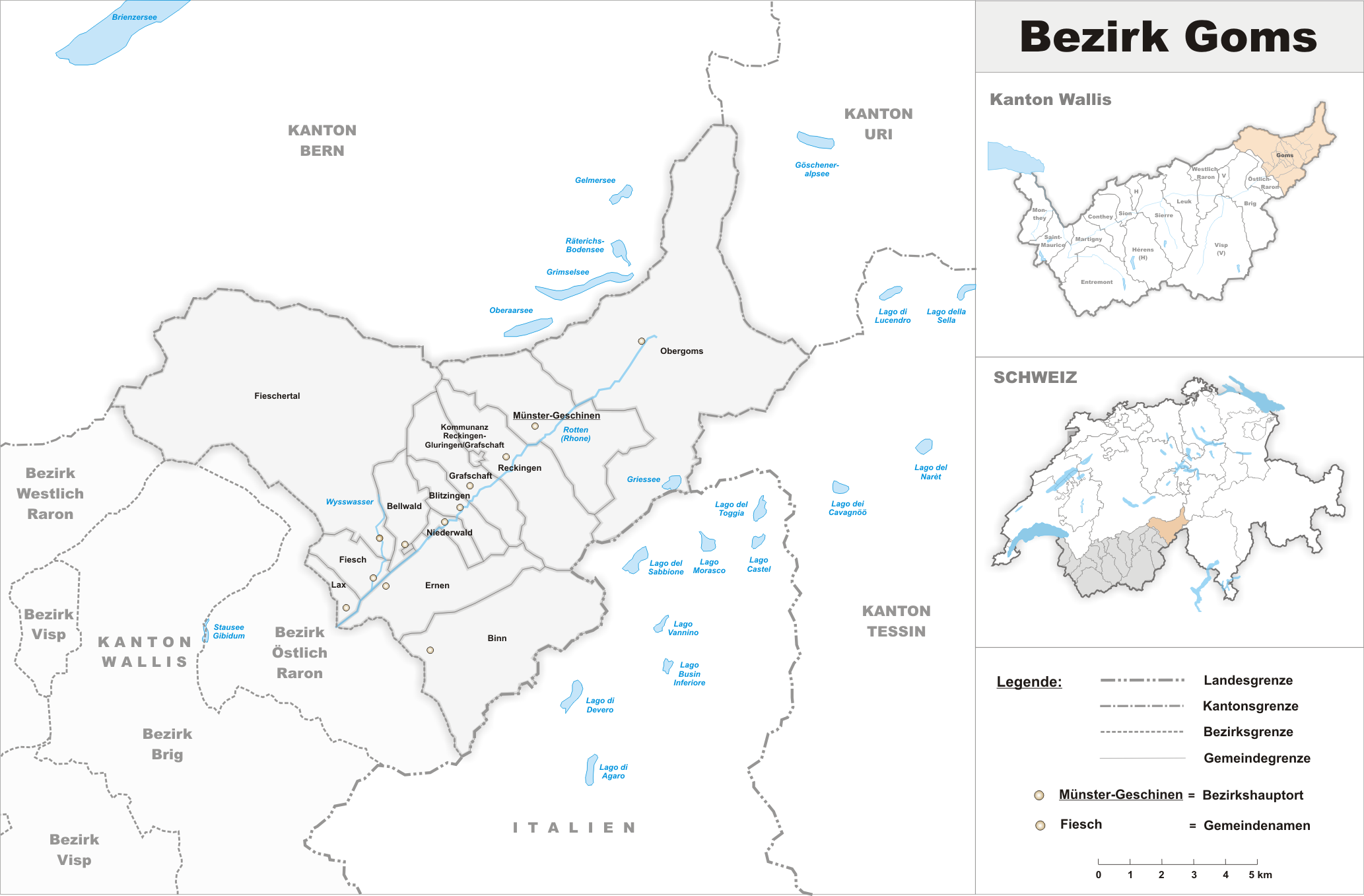 Municipalities in the district of Goms to 2009